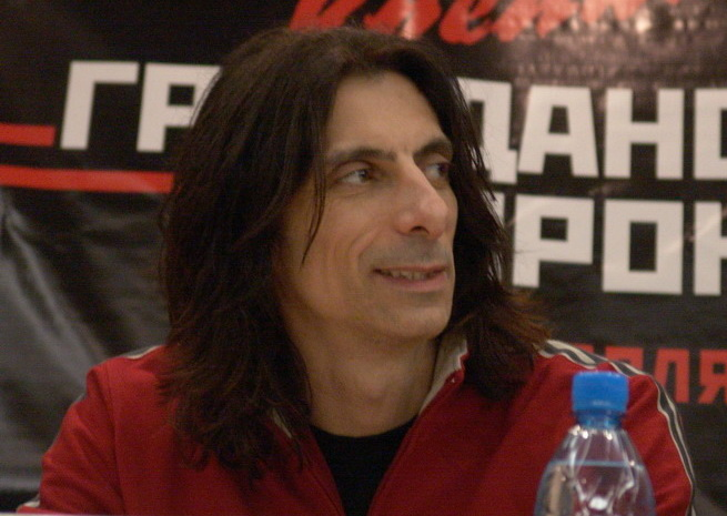 Press conference of band Judas Priest at Moscow (Scott Travis)